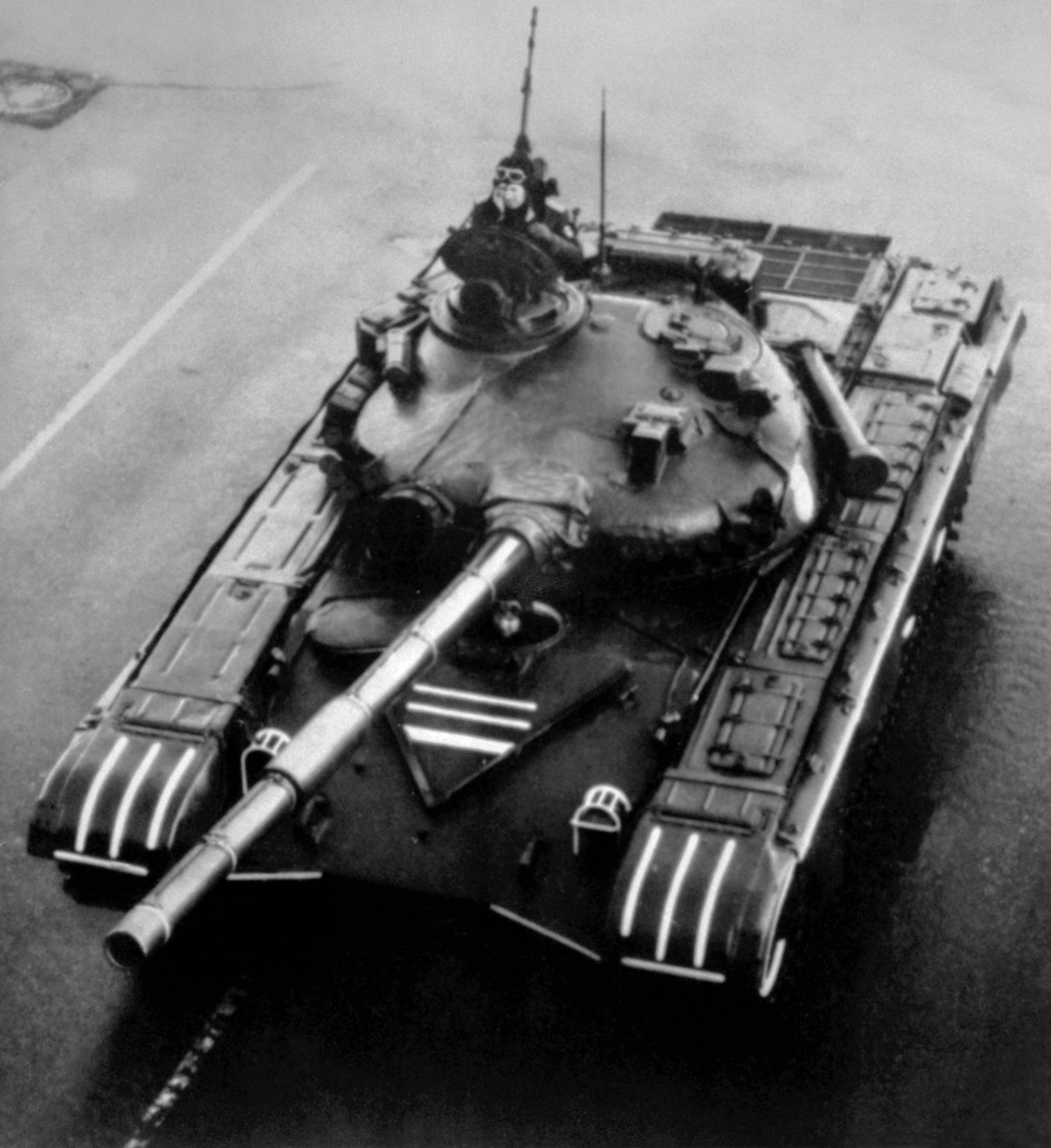 This is a T-72A tank, which can be clearly identified by the smoke grenades on the front turret. The T-72B has the smoke grenades in a stack on the left side and indentations on the front turret roof for the new inserts. Original caption [misidentified]: "Front view of a Soviet T-80 main battle tank. "Soviet Military Power," 1983, Page 39. Date Shot: 1 Apr 1983"